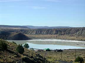 Zuni Salt Lake, also known as Fence Lake, New Mexico, USA